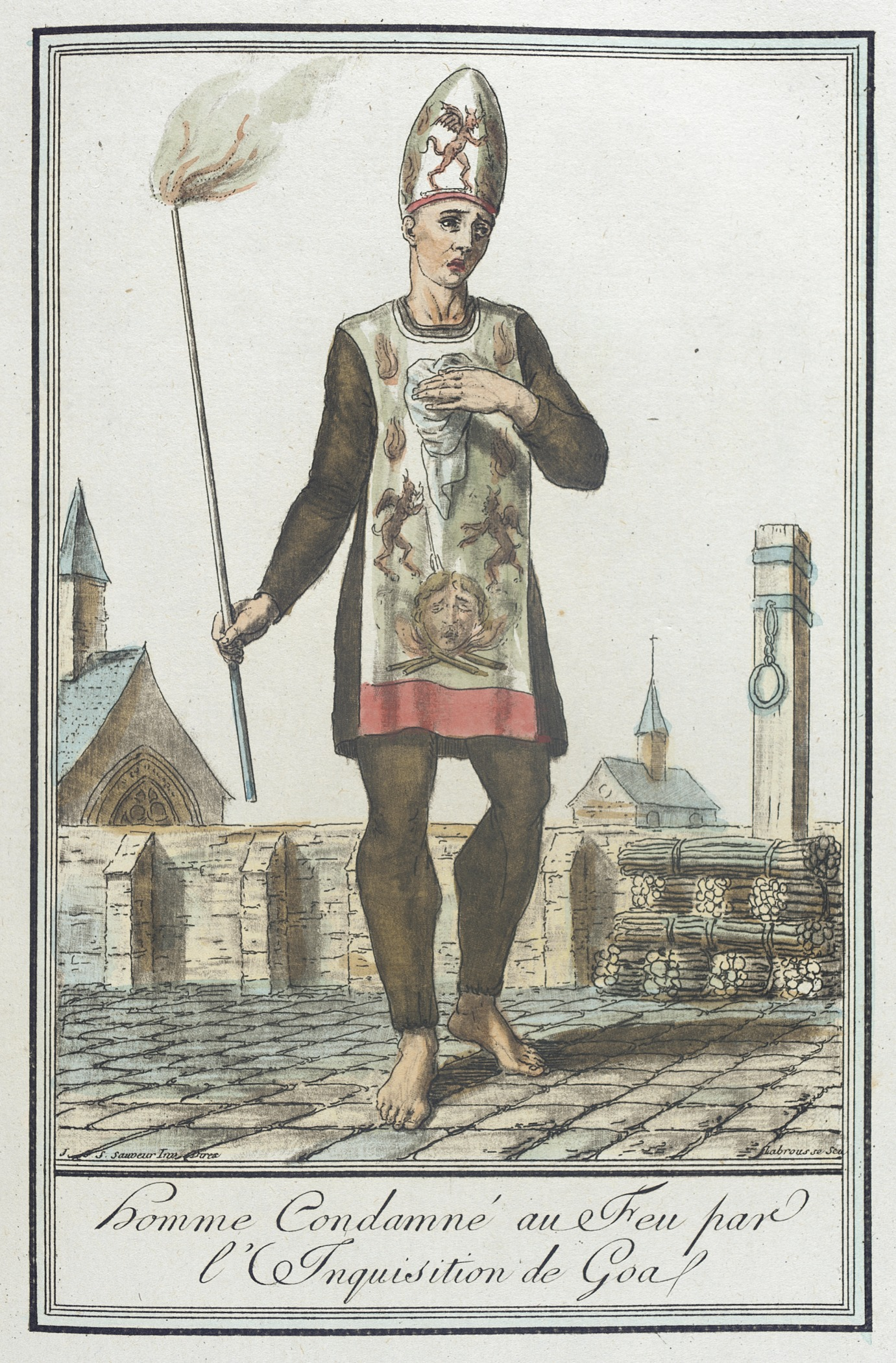 France, circa 1797 Prints; engravings Hand-tinted engraving on paper Sheet: 10 1/2 x 7 1/2 in. (26.67 x 19.05 cm); Composition: 7 3/4 x 5 1/2 in. (19.69 x 13.97 cm) Costume Council Fund (M.83.190.209) Costume and Textiles